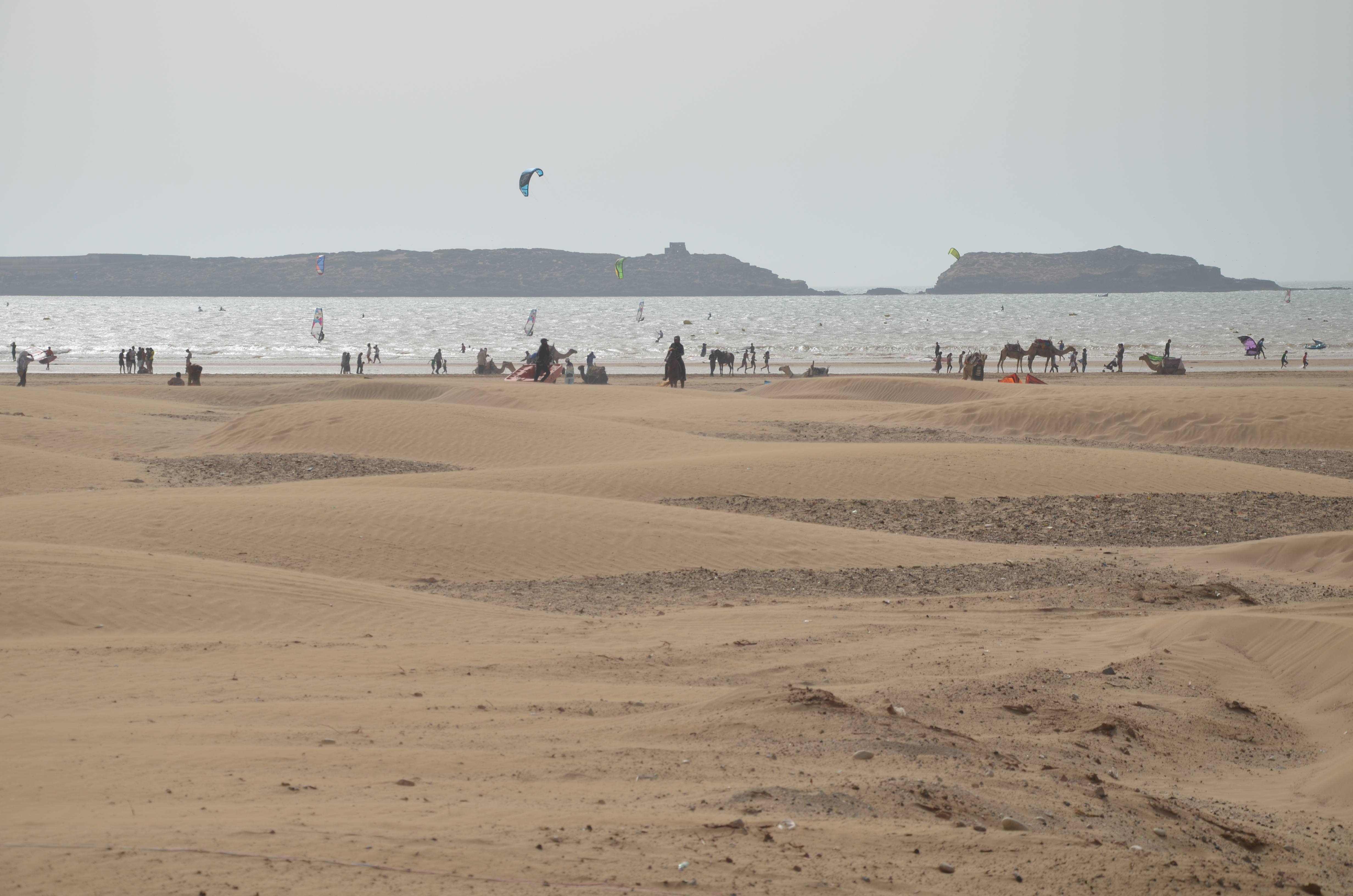 Glamour of beach_ mediterraneen El maghreb.2014